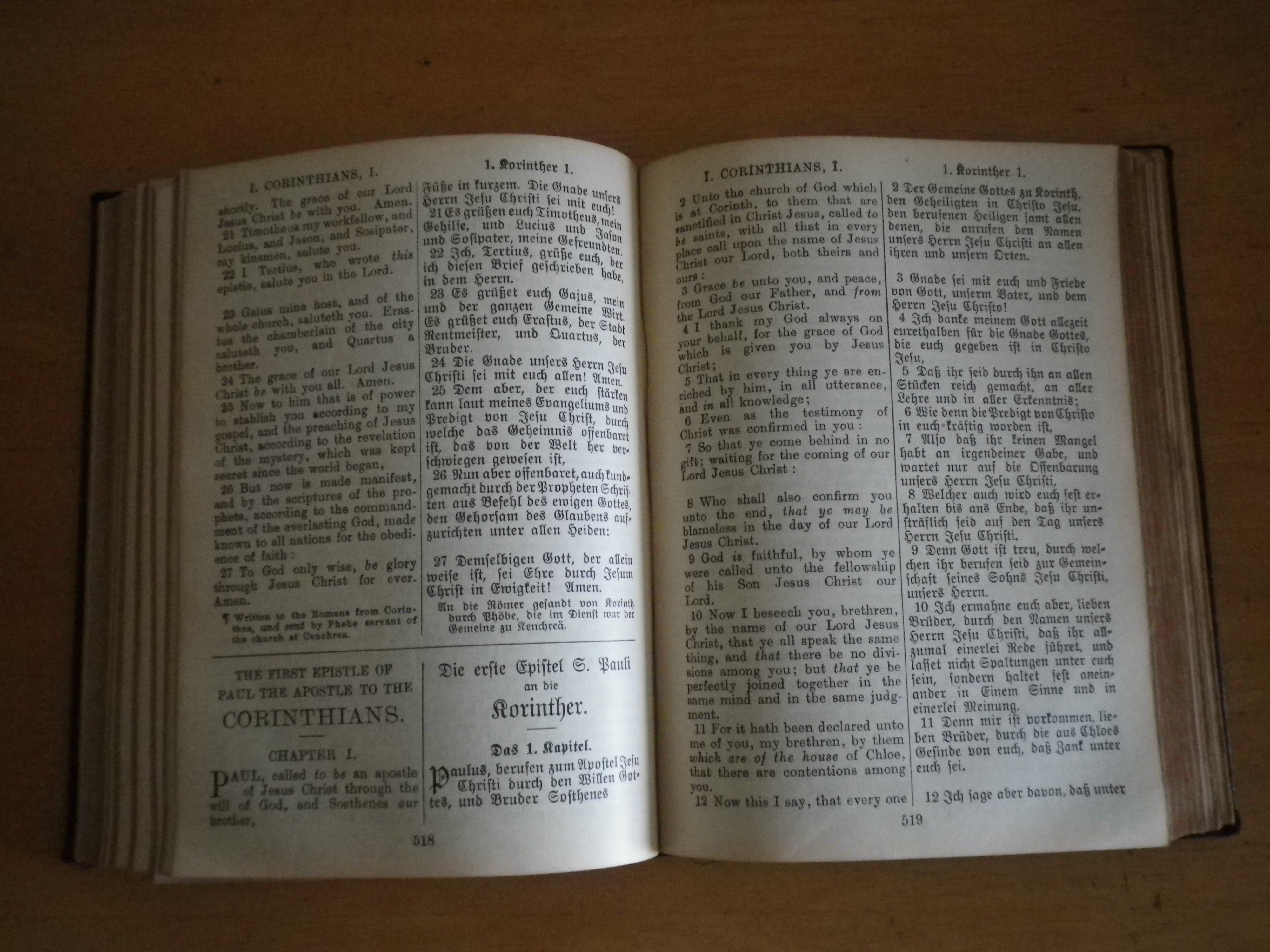 The Bible in English and German, published in 1927